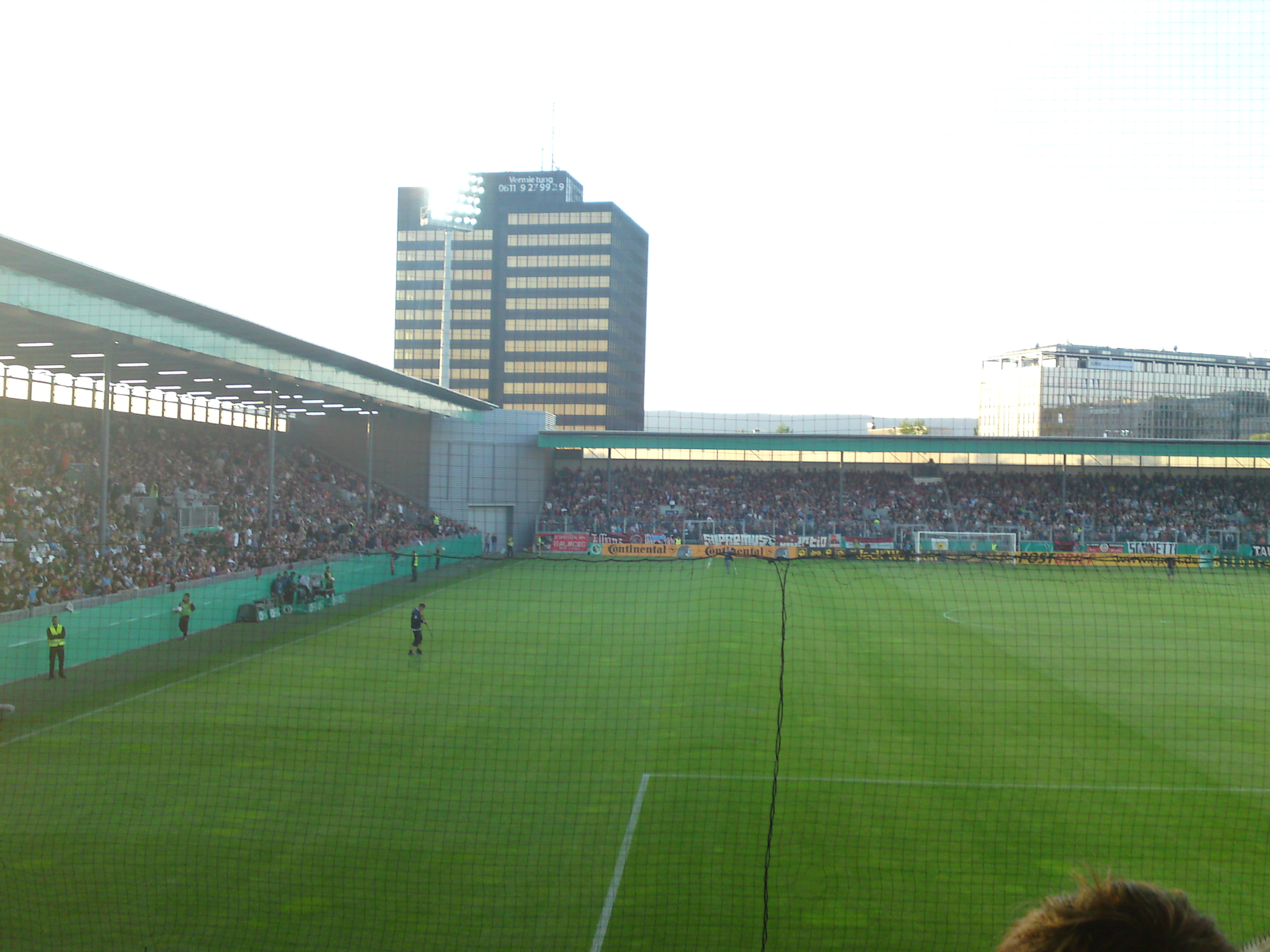 Brita-Arena during DFB-Pokal 1st round match SV Wehen Wiesbaden - VfB Stuttgart on 29 July 2012